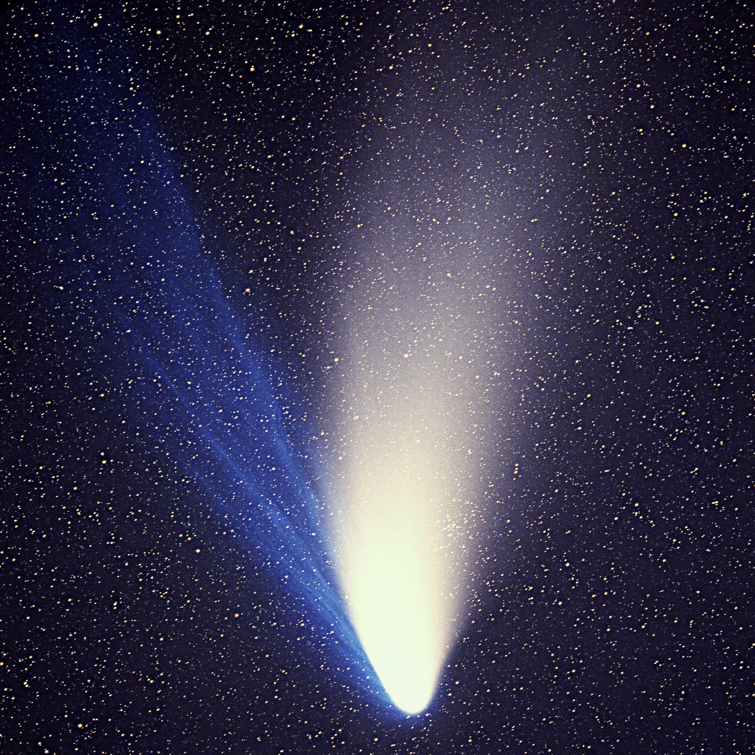 Image of comet C/1995 O1 (Hale-Bopp), taken on 1997 April 04, with a 225mm f/2.0 Schmidt Camera (focal length 450mm) on Kodak Panther 400 color slide film with an exposure time of 10 minutes. The field shown is about 6.5°x6.5°. At full resolution, the stars in the image appear slightly elongated, as the camera tracked the comet during the exposure.